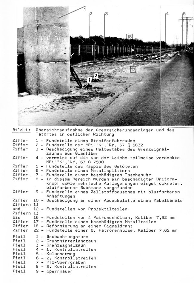 Photo with key of the place in Berlin-Spandau where Egon Bunge shot Ulrich Steinhauer on November 4th in 1980 at the Berlin Wall. A document of the documentary "Between the lines" (2004) by Dirk Simon.